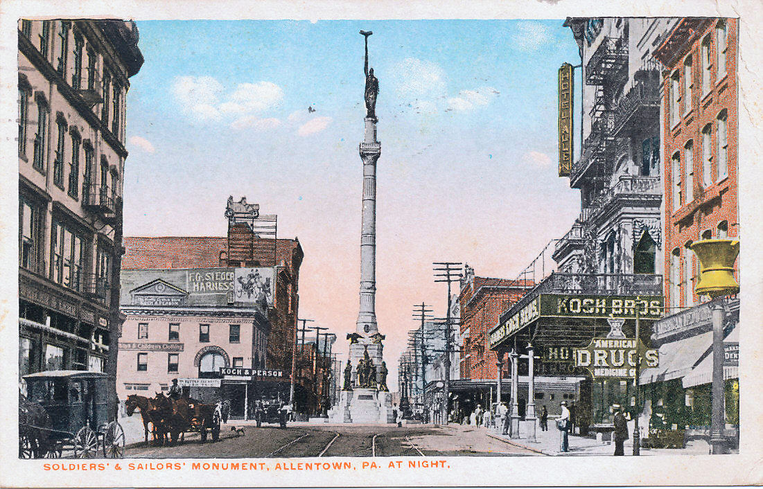 Postcard image of Center Square, looking west from Hamilton Street. Taken about 1910 three businesses feature prominently in the photograph. On the left (southeast corner) side behind the horse-drawn hearse is Shankweiler and Lehr, a men's store where fine suits were sold. On the right (northeast corner) of Hamilton and Center square is the Hotel Allen, at the time, the finest hotel in the city. Next to it on Hamilton Street is the American Medicine Company. The American Medicine Company was owned by Jacob B. Waidlich, a native of Lynnport, Lynn Township. Waidlich was better known at the time as a major figure in the Lehigh County Democratic Party. From 1901 to 1904 he was county sheriff. In 1926, Waidlich moved his business to a new building at Church and Hamilton, 627-629 Hamilton St. a few doors to the east. It is still known as the Waidlich Building today. Along with the pharmacy, was the location of the Hotel Hamilton. This was the second Hotel Hamilton, the original had burnt down in 1918 at the location of where Three City Center building is today, next to the Lehigh County Court House. The original American Medicine Company store shown in this postcard became an Endicott-Johnson Shoe Company store when Waidlich moved out in 1926. It remained open until the late 1960s until it was acquired by the First National Bank, which tore down all the properties along Hamilton between Center Square and Church Street and expanded its main banking headquarters building.